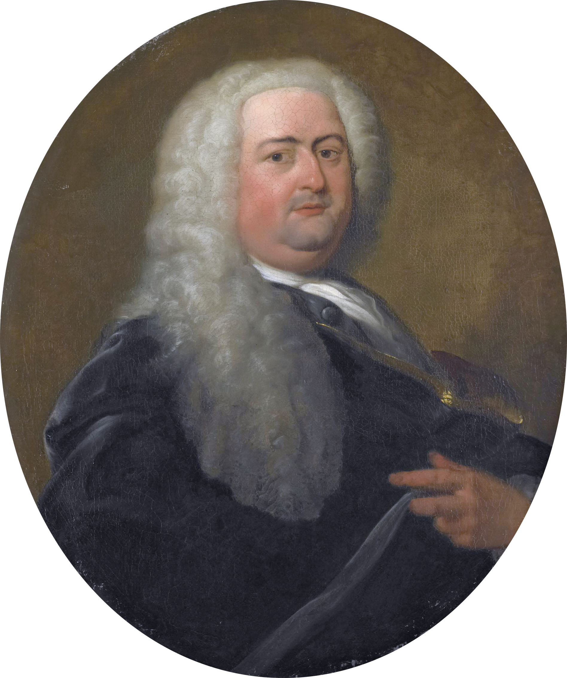 Portrait of Adriaen Paets (1697–1765), elected in 1734 as director of the Rotterdam Chamber of the Dutch East India Company. Bust, facing right, in an oval. Part of the Rotterdam VOC series, a series of portraits of directors of the Rotterdam Chamber of the Dutch East India Company executed for the Nieuw Oost-Indisch Huis, built in 1698, on Boompjes in Rotterdam.